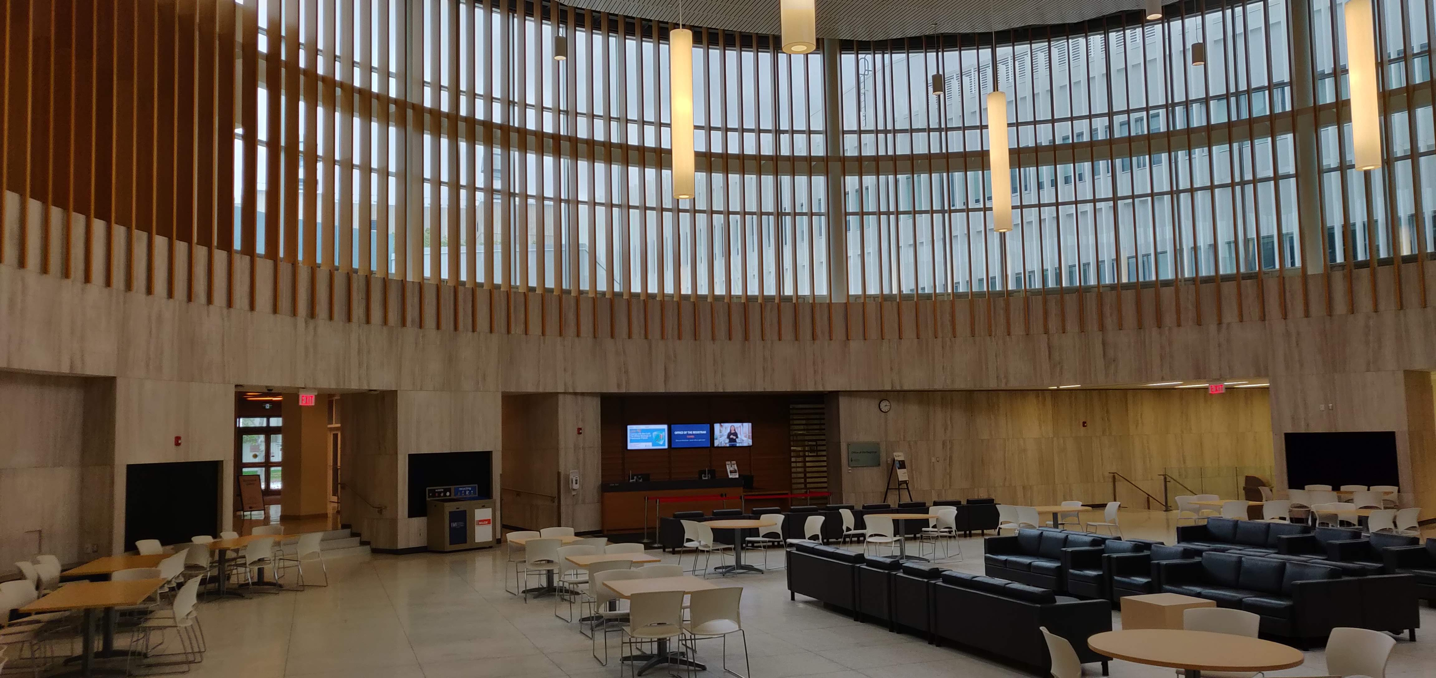 The rotunda of the Innovation Complex